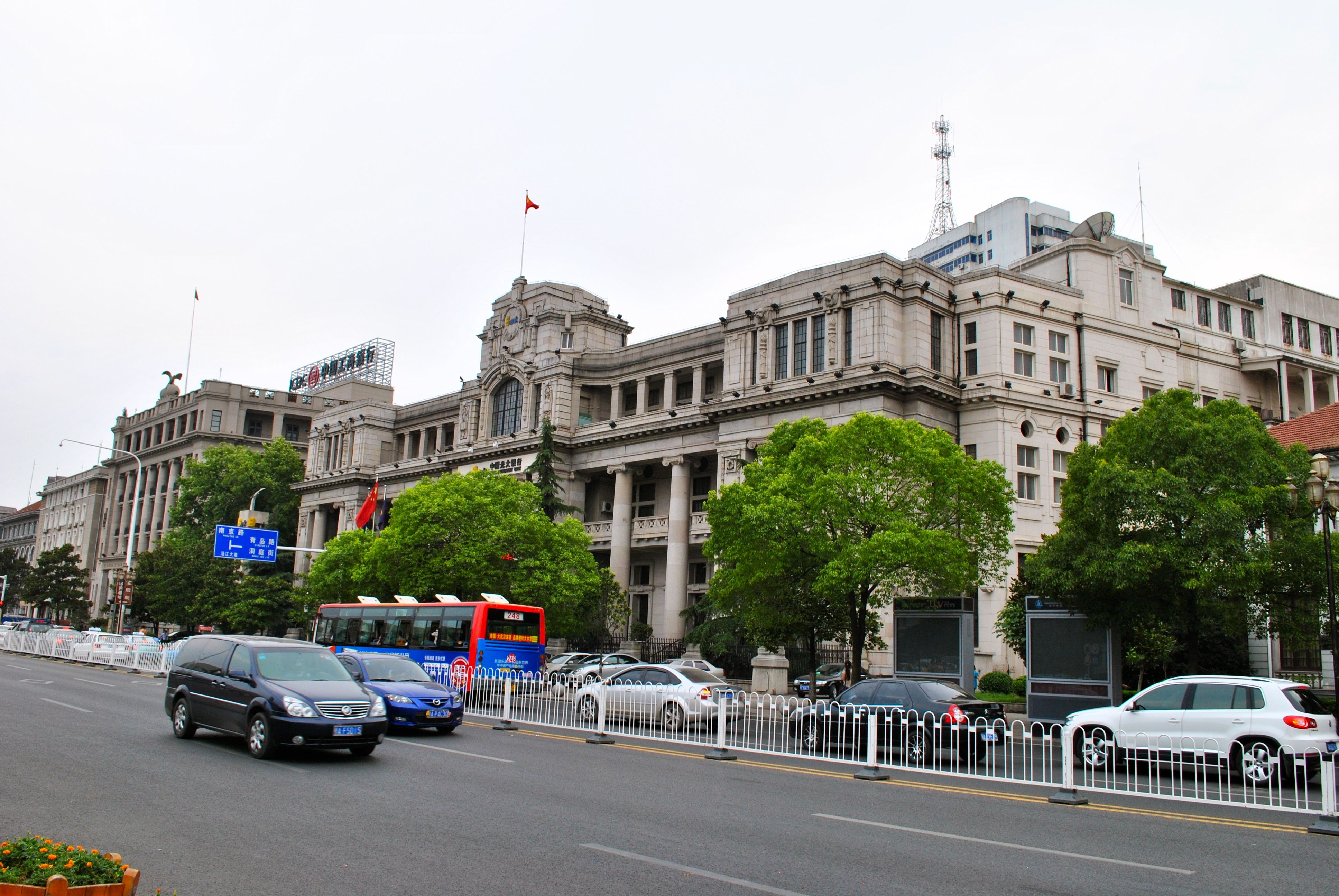 HSBC building in Hankou 4